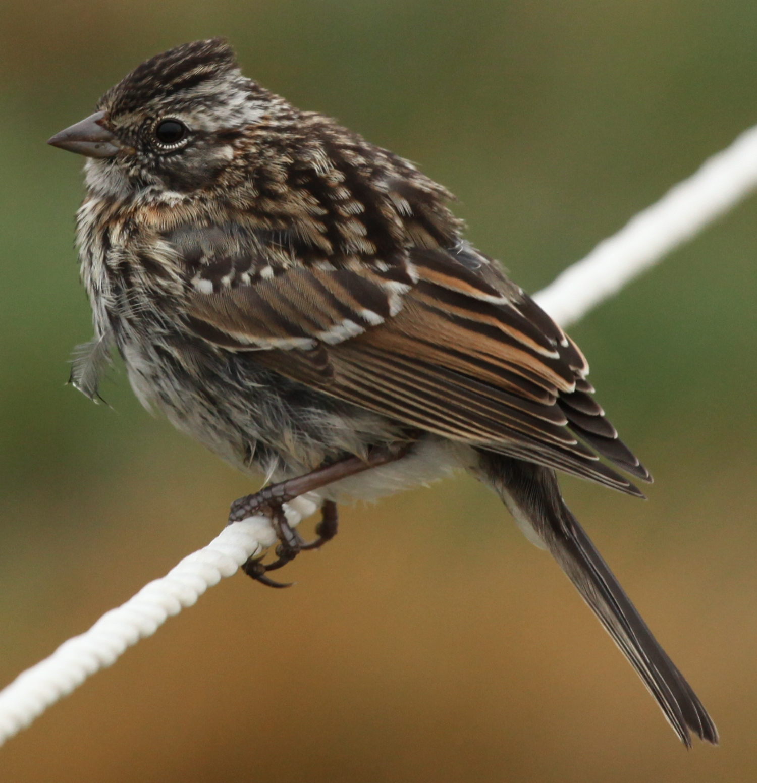 Rufous-collared Sparrow at Otway Sound, Chile